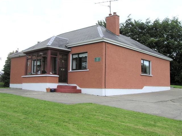 Brian Friel's house in Tamlaght Road, Omagh, Ireland